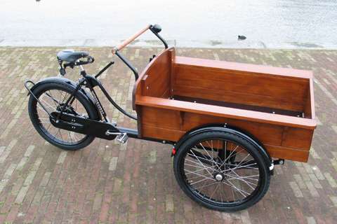 Workcycles, Amsterdam